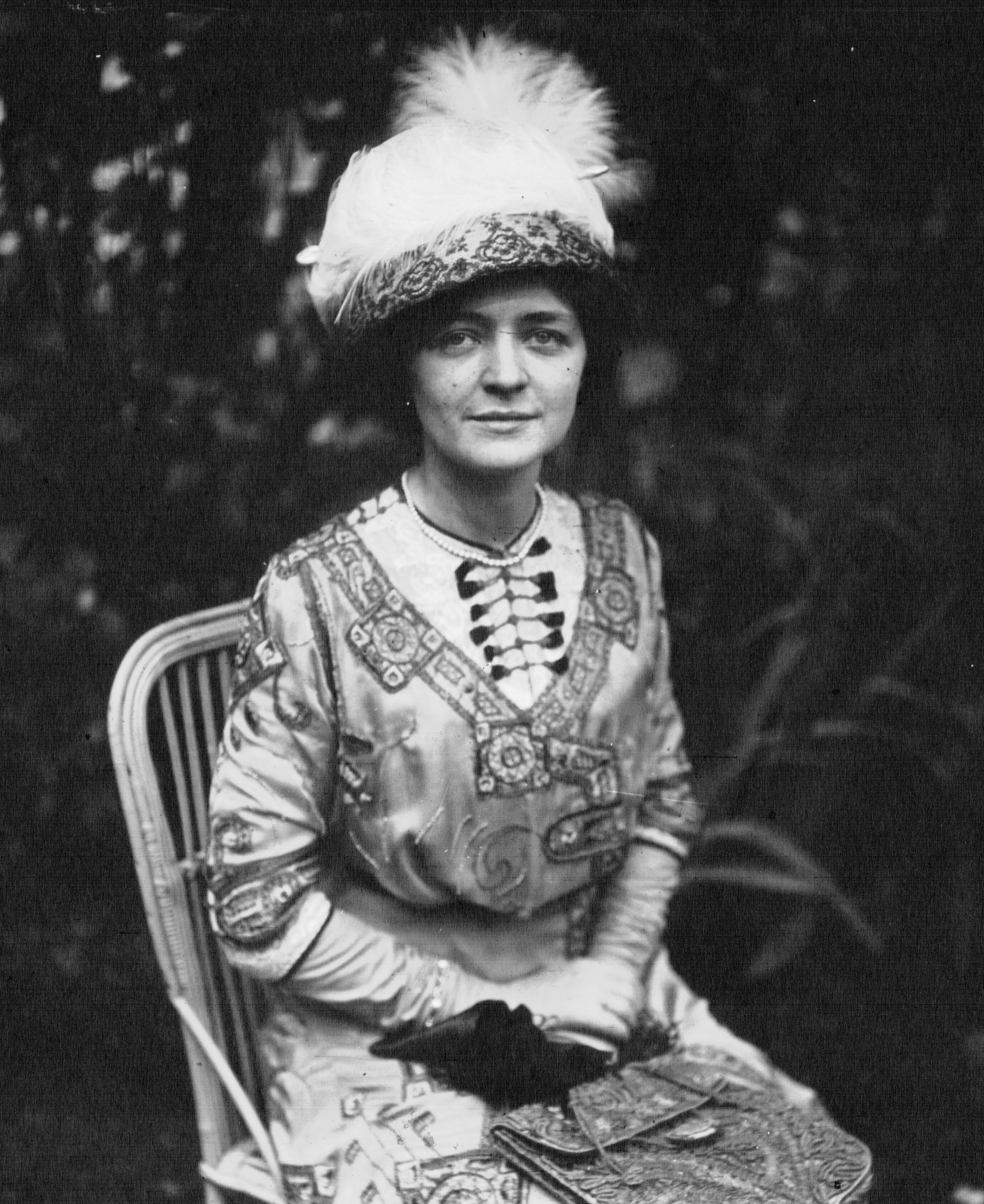 French actress Marcelle Géniat (1881-1959).